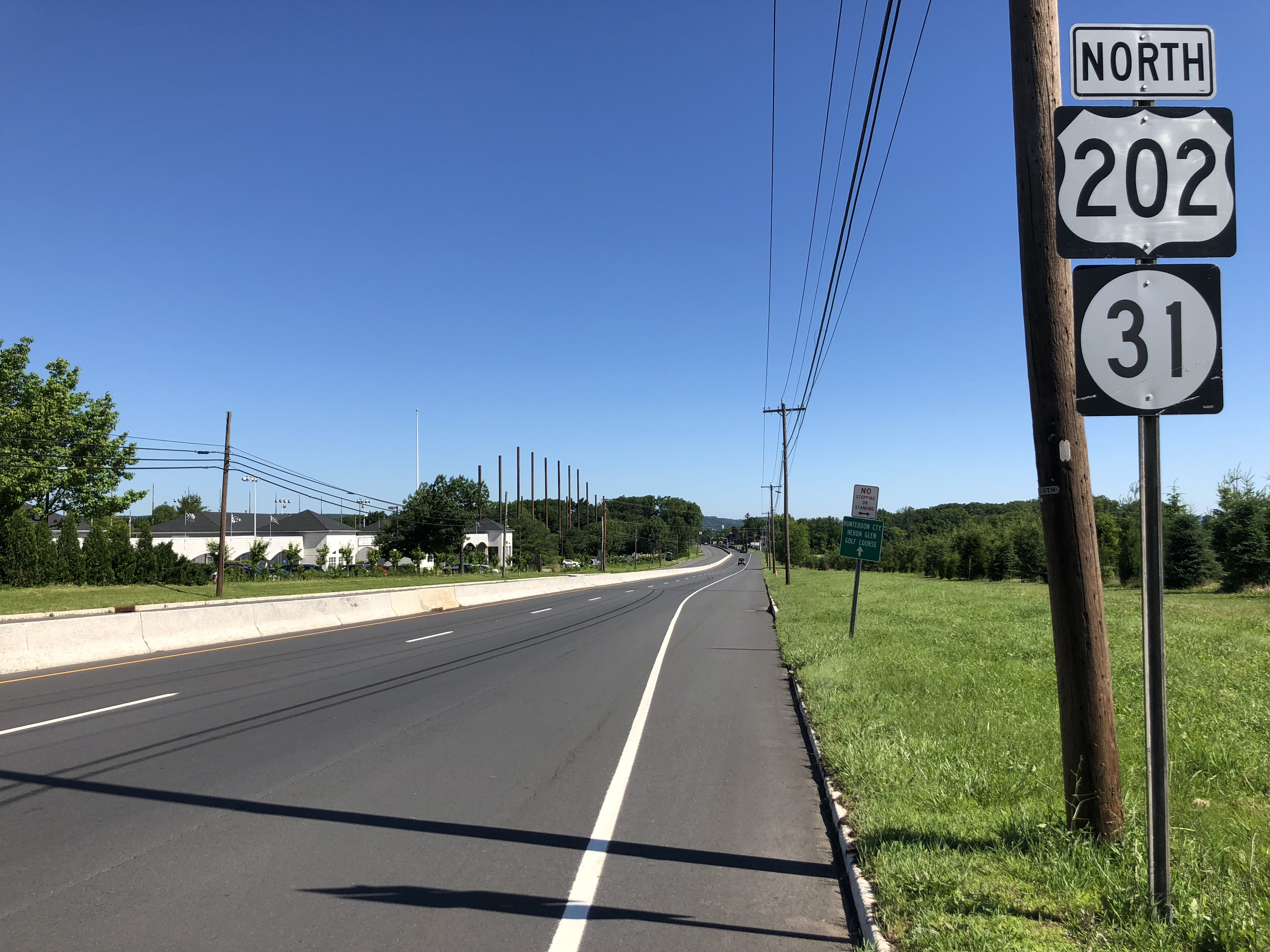 View north along U.S. Route 202 and New Jersey State Route 31 at Everitts Road in Raritan Township, Hunterdon County, New Jersey